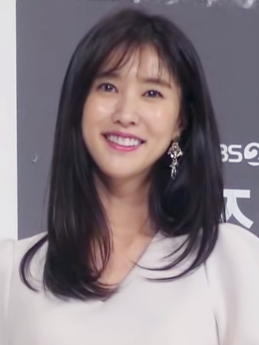 Lee Soo-kyung attending the press conference of KBS 2TV Daily Drama "Left-handed Wife", on 28 December 2018.